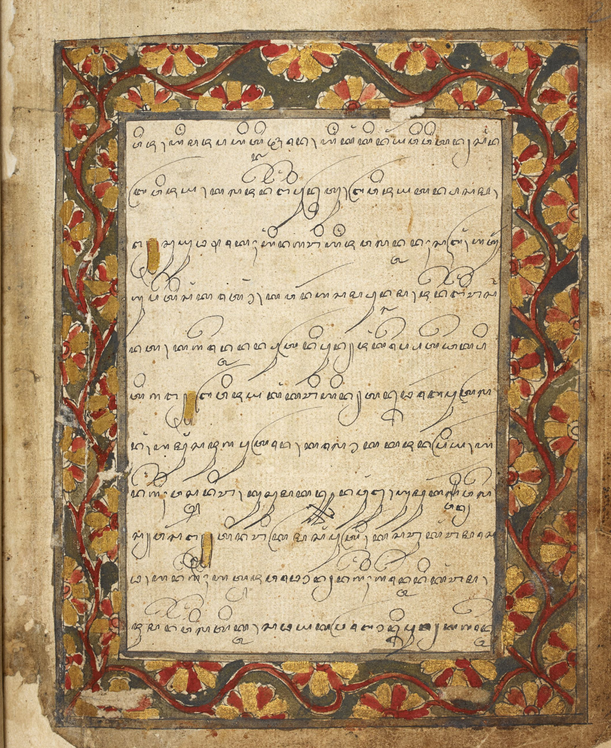 Opening passage of Serat Damar Wulan, which tells the accession of the daughter of Brawijaya (Kusuma Kancana Wungu) to the throne of Majapahit. Written in Javanese language and script. Dated Jumahat-Manis, 9 Rabingulawal, no year given.